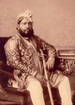 Jaswant Singh of Bharatpur